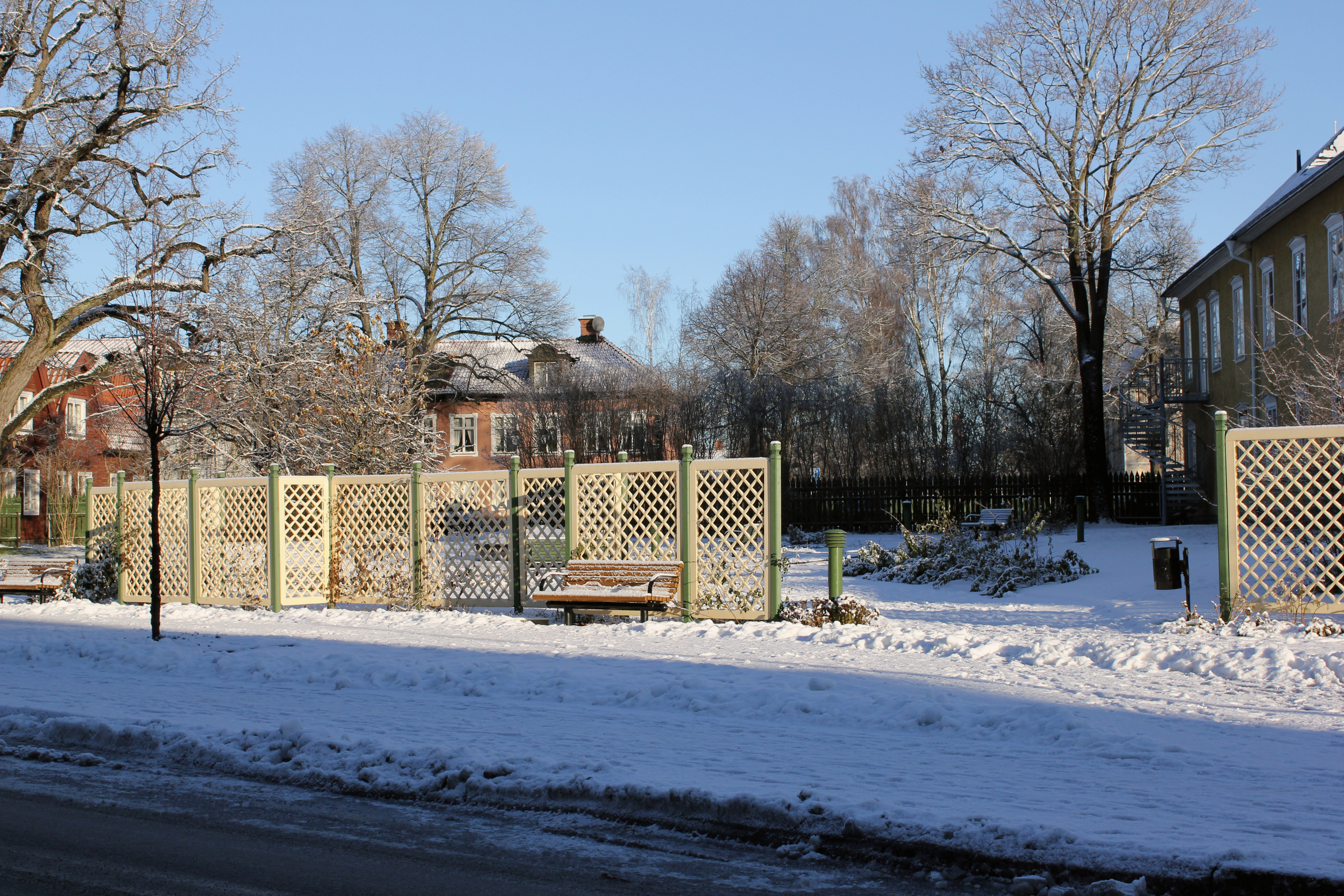 Apoteksparken (the pharmacy's park), Hedemora, Sweden.